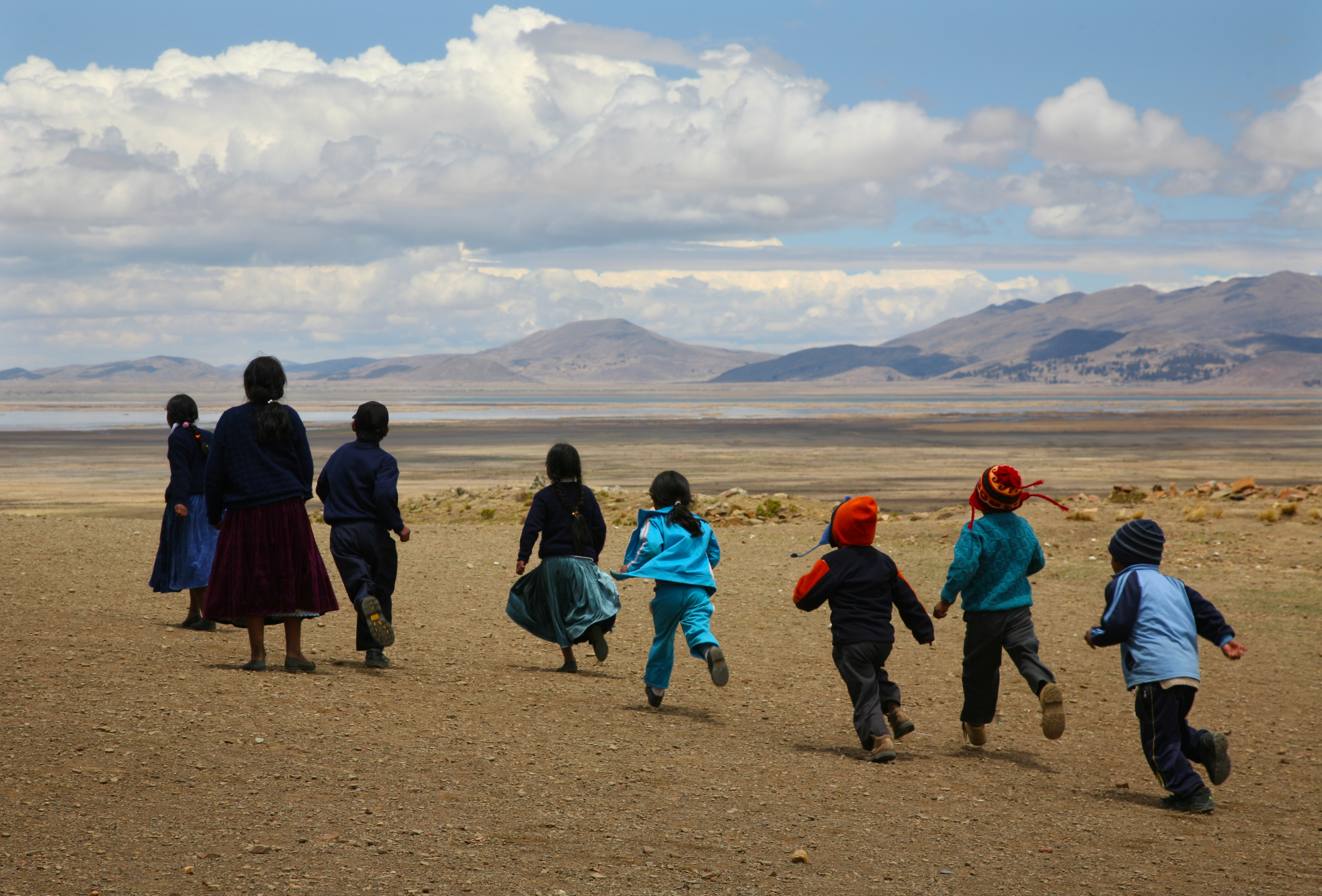 Children play outside school in the community of Maquilaya, Bolivia. The beautiful scenery with Lake Titicaca in the background masks the fact that water can be scarce here and food hard to grow. (Photo: David Stephenson)